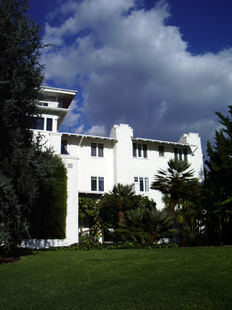 Headquarter building for SRF at 3880 San Rafael Ave., Los Angeles, CA 90065